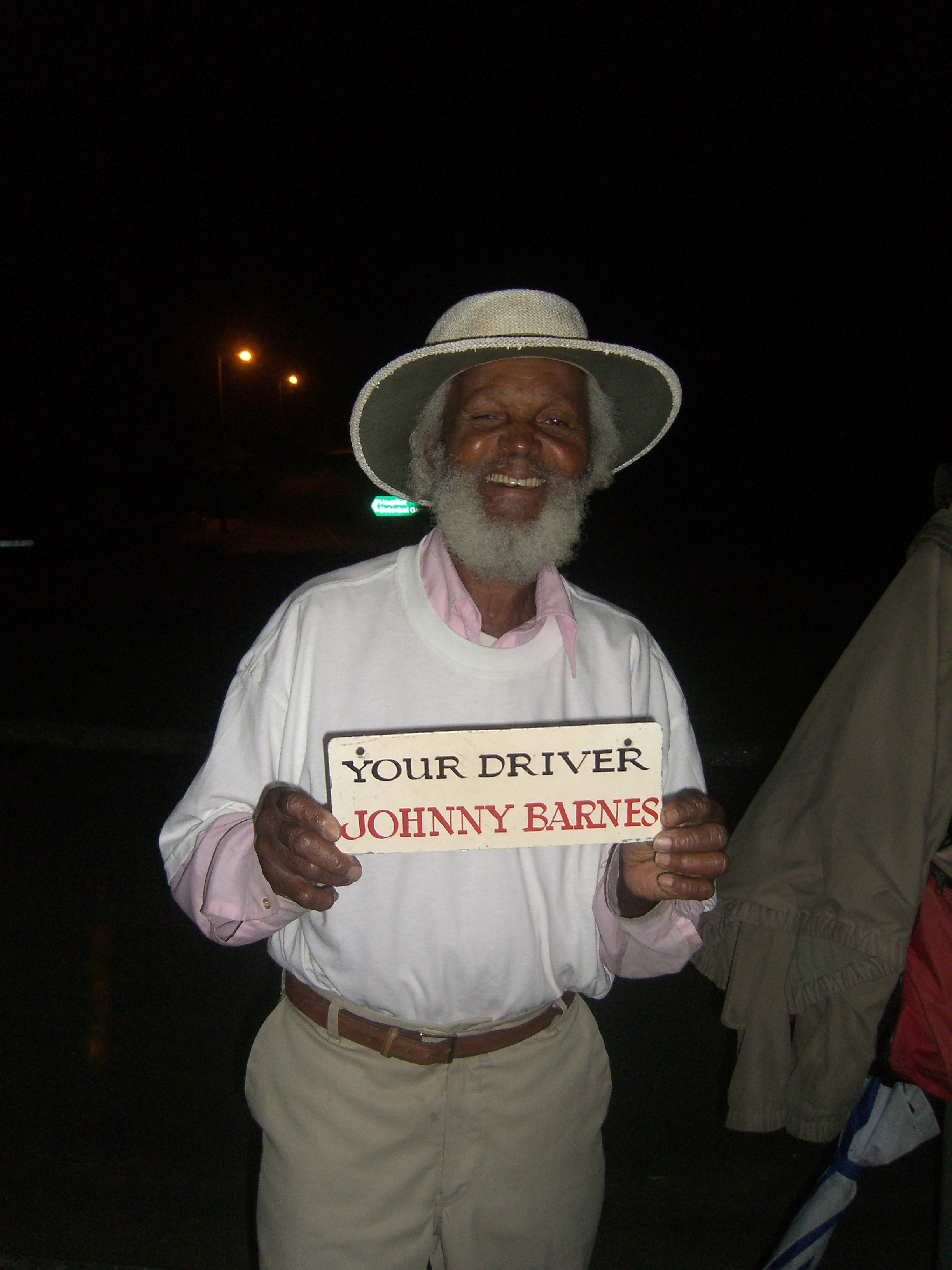 Johnny Barnes in October 2007 holding the bus sign from the 1950's. Johnny is often referred to as Bermuda's Friendliest Man.